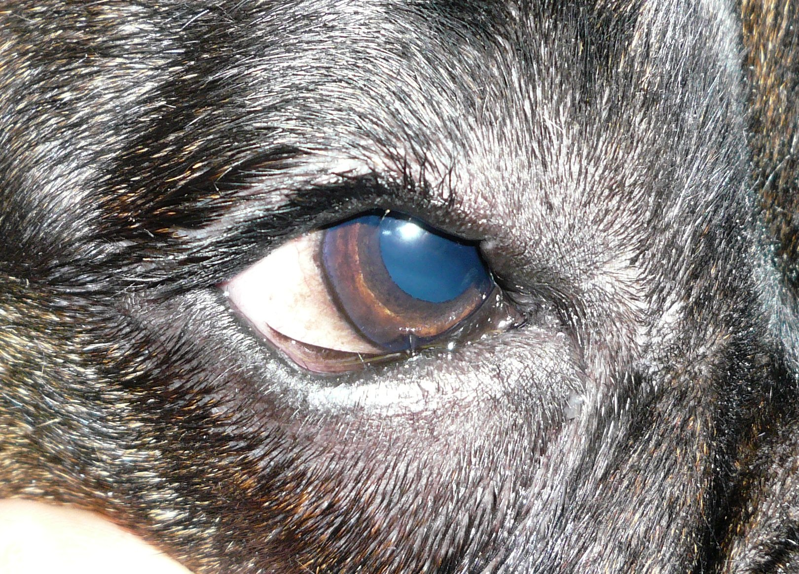 Distichiae of the lower and upper eyelid in a Boxer.